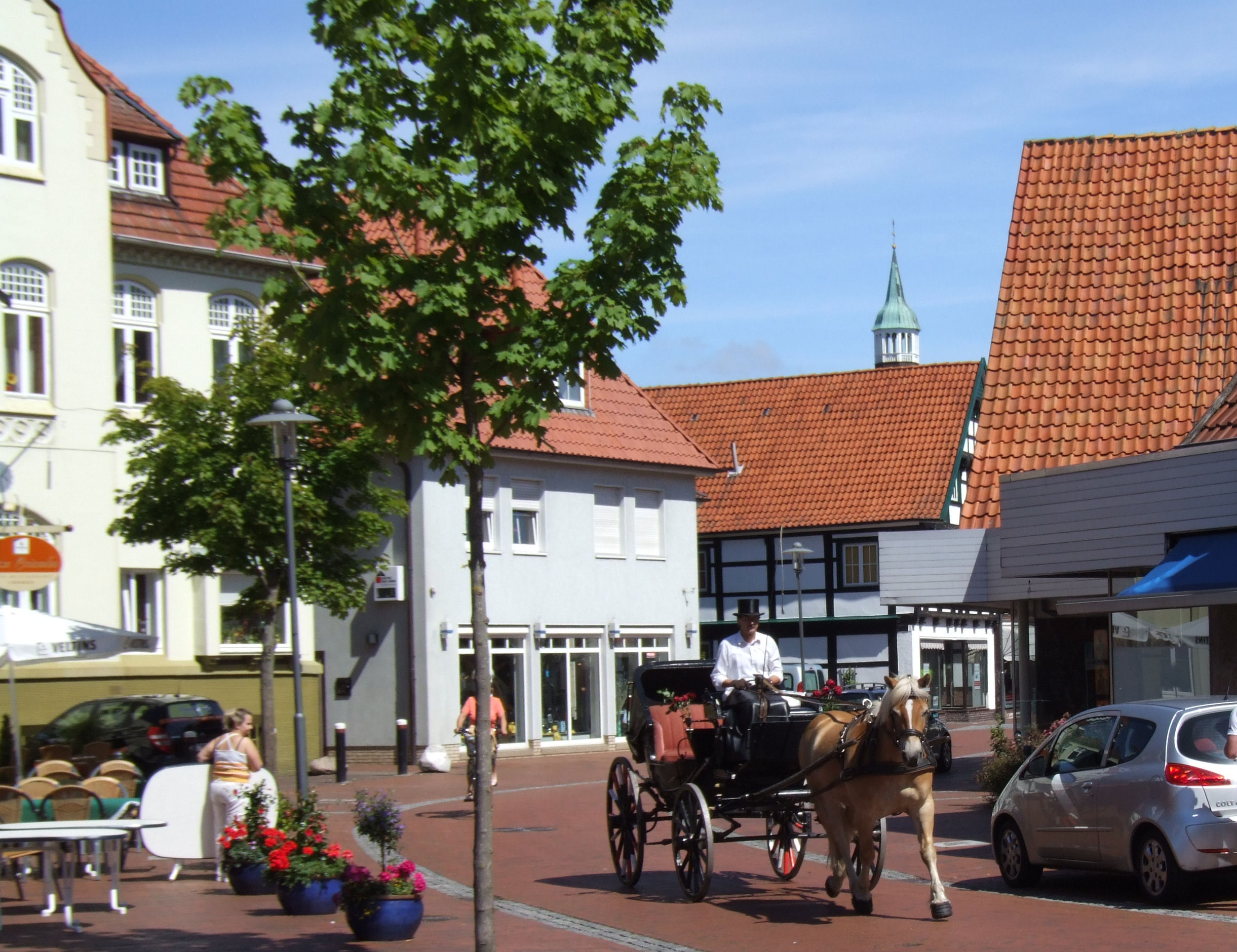 Quakenbrück